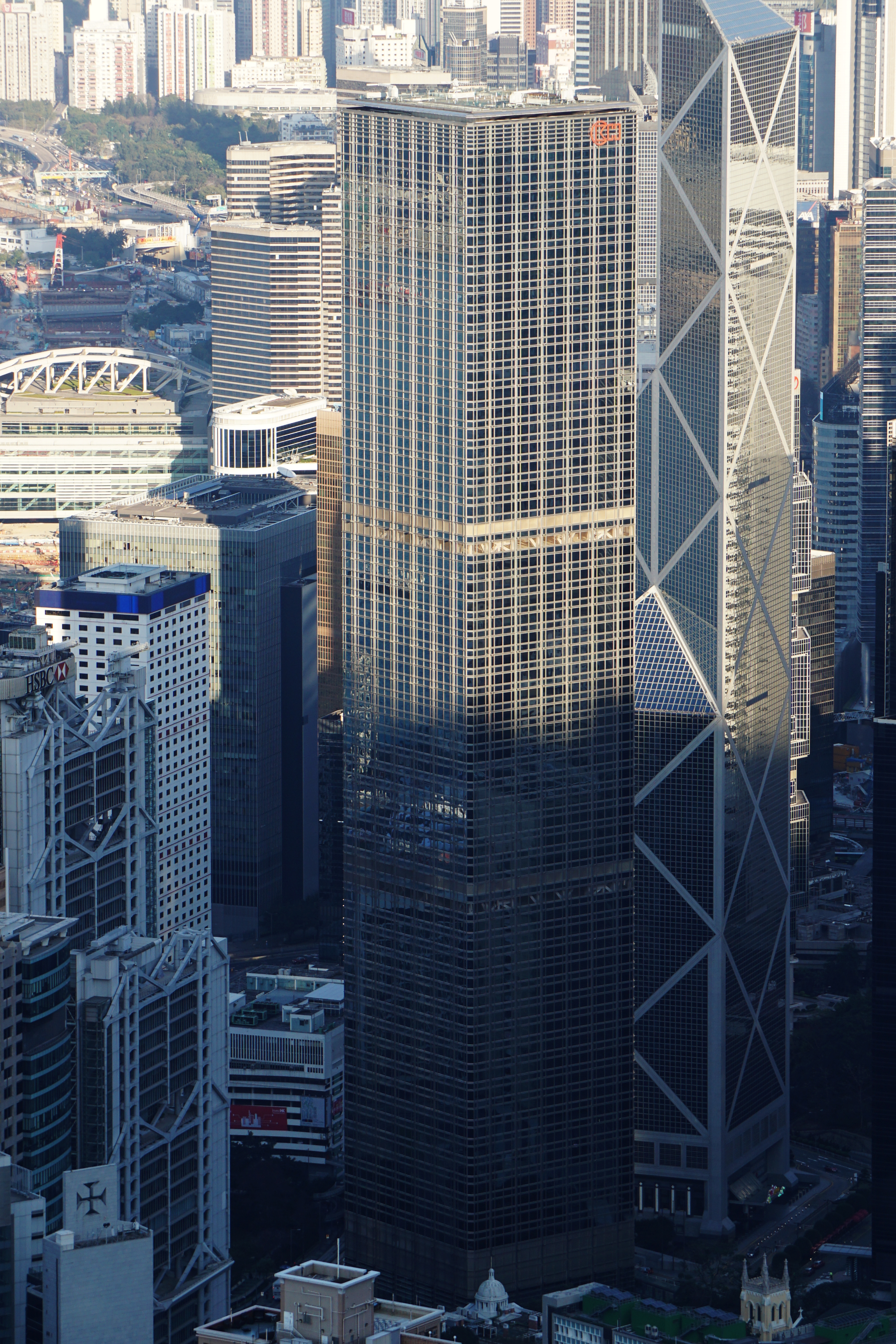 Cheung Kong Center in Central, Hong Kong.